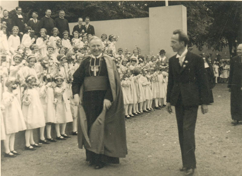 Bishop Lemmens arriving at a children's parade in Vrijthof during the 1937 Pilgrimage of the Relics (Heiligdomsvaart) in Maastricht, Netherlands. The 10 or 15-day religious festival is celebrated in Maastricht every seven years and dates back to the Middle Ages. The school children bring tribute with flowers to Saint Servatius and Our Lady, Star of the Sea. Photo: Municipal Archives Maastricht (GAM 31401), part of RHCL collections.